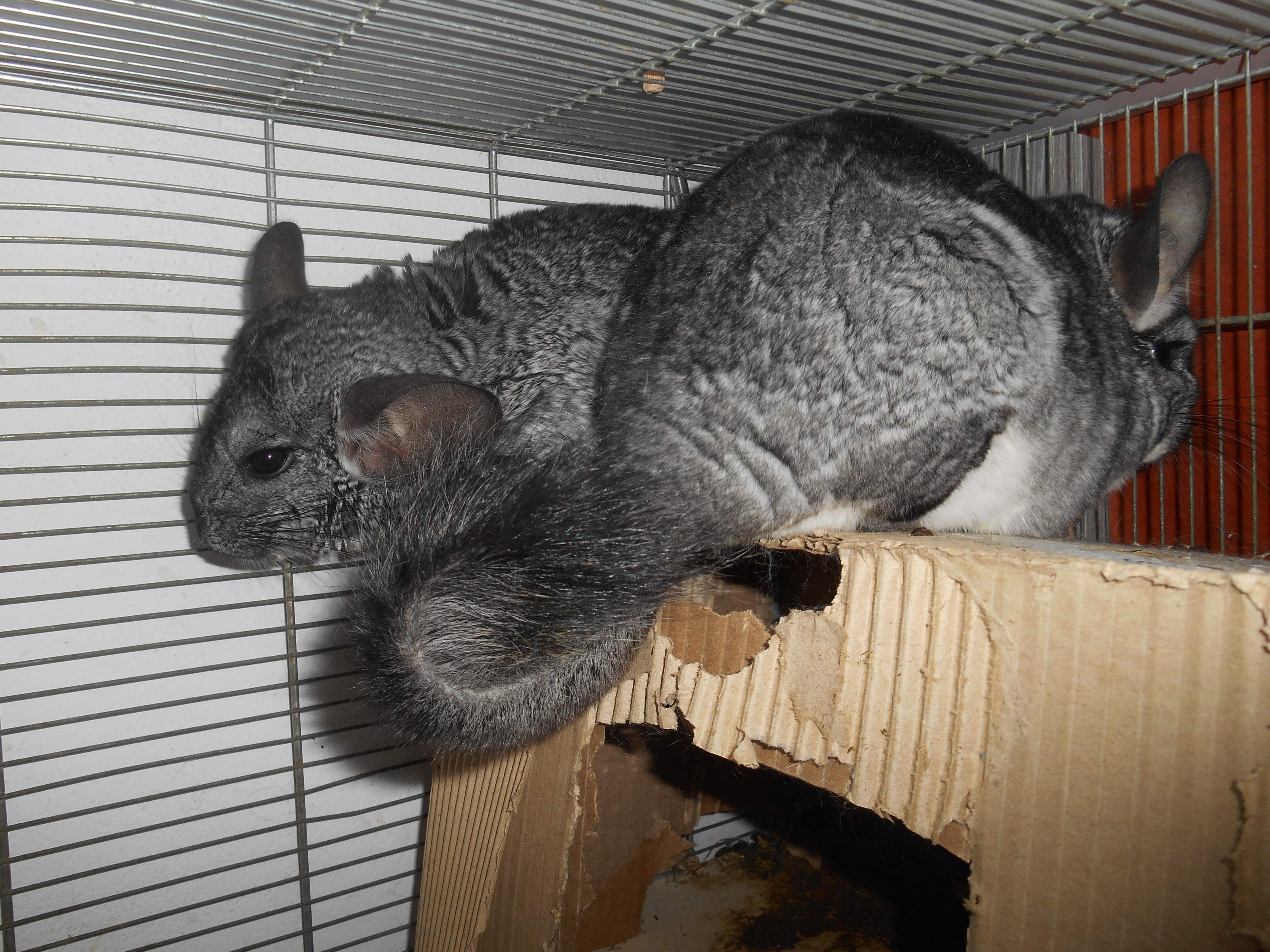 Chinchillas